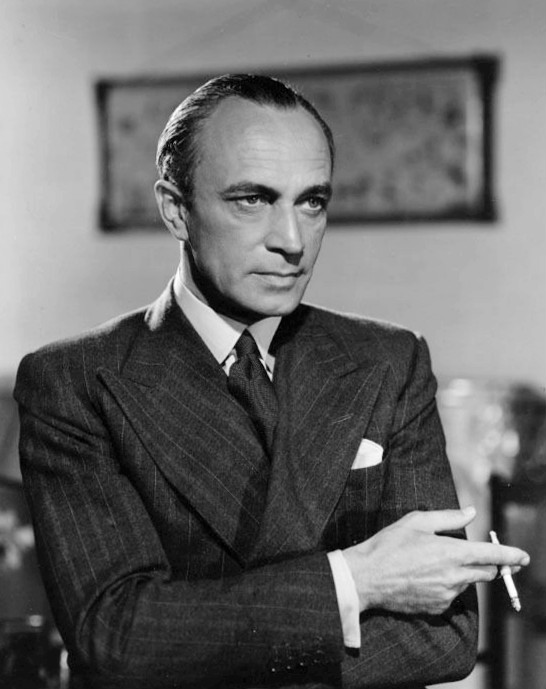 Photo of Conrad Veidt.